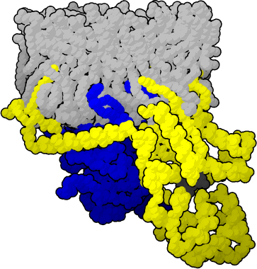 Based on PDB 1gg2 and Heller/Schaefer/Schulten lipid bilayer coordinates. Added theoretical lipid anchors.